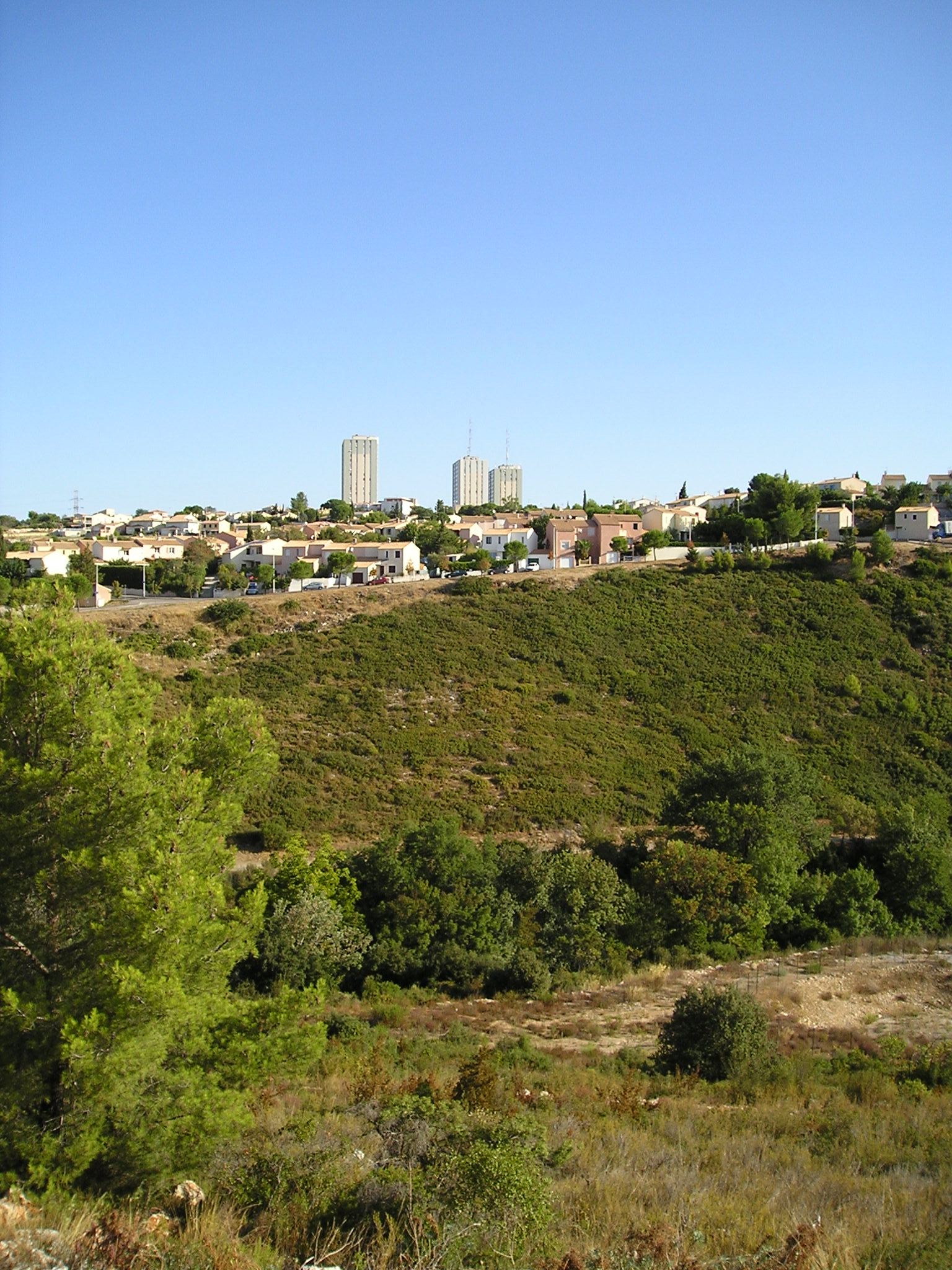 Viewed from Font Despierre, Northern Juvignac, the Western part of Montpellier area of the Heights of Massane, northern part of La Paillade ; including the three remaining towers of the Tritons residence. At the bottom, the Mosson River under the trees, separating the territories of Juvignac and Montpellier.